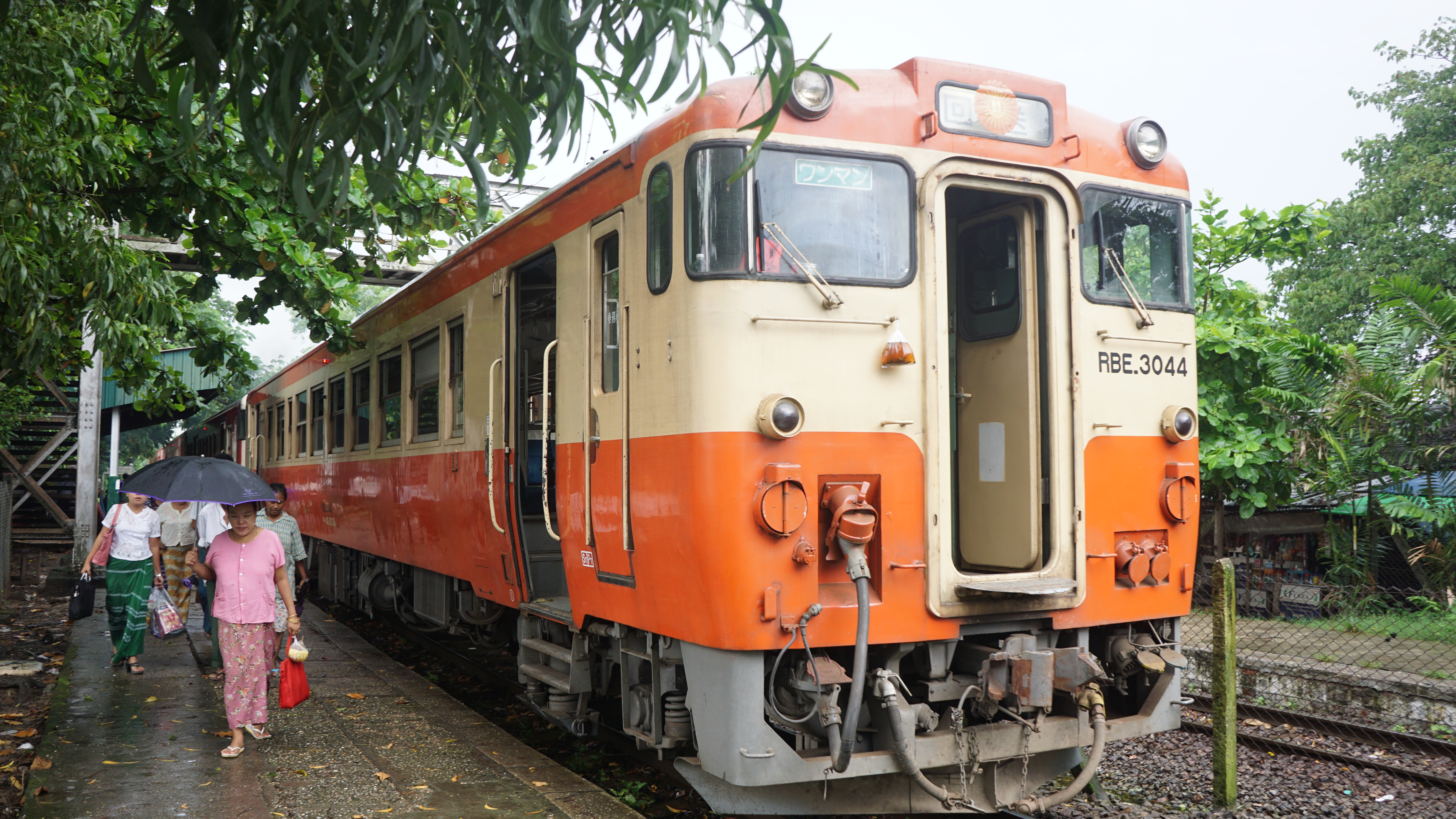 Train in yangon Circular Railway, formerly JR Central Kiha 40 6309